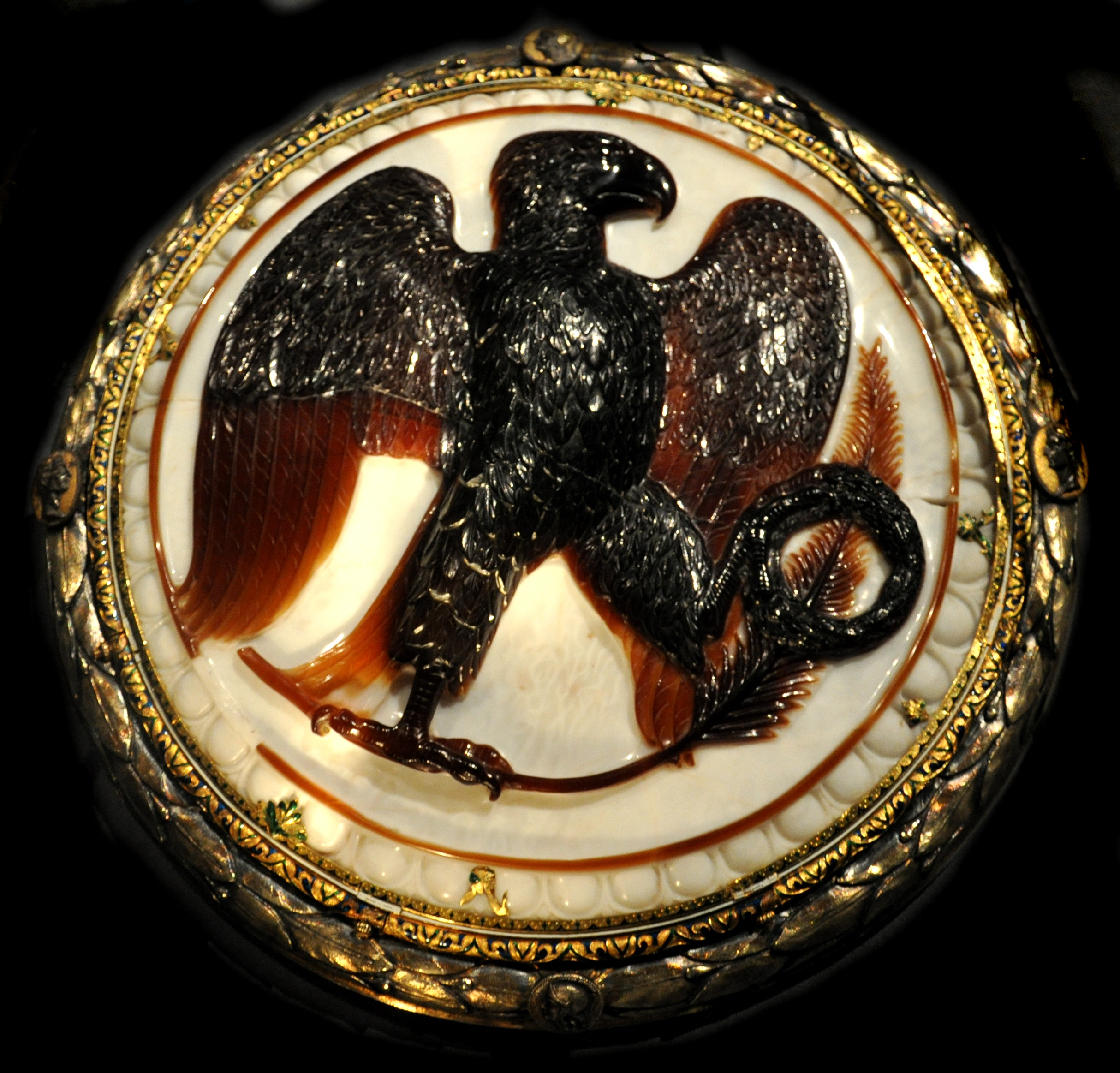 Eagle Cameo. Collection of Greek and Roman Antiquities in the Kunsthistorisches Museum, Vienna. Depicts an eagle, the symbol of the Roman Emperors. This cameo was a symbol of imperial power. Roman 27 B. C. Two-layered onyx. Setting: silver, gilded; Milan, 3rd quarter of 16th century. AS Inv. No. IX 26.